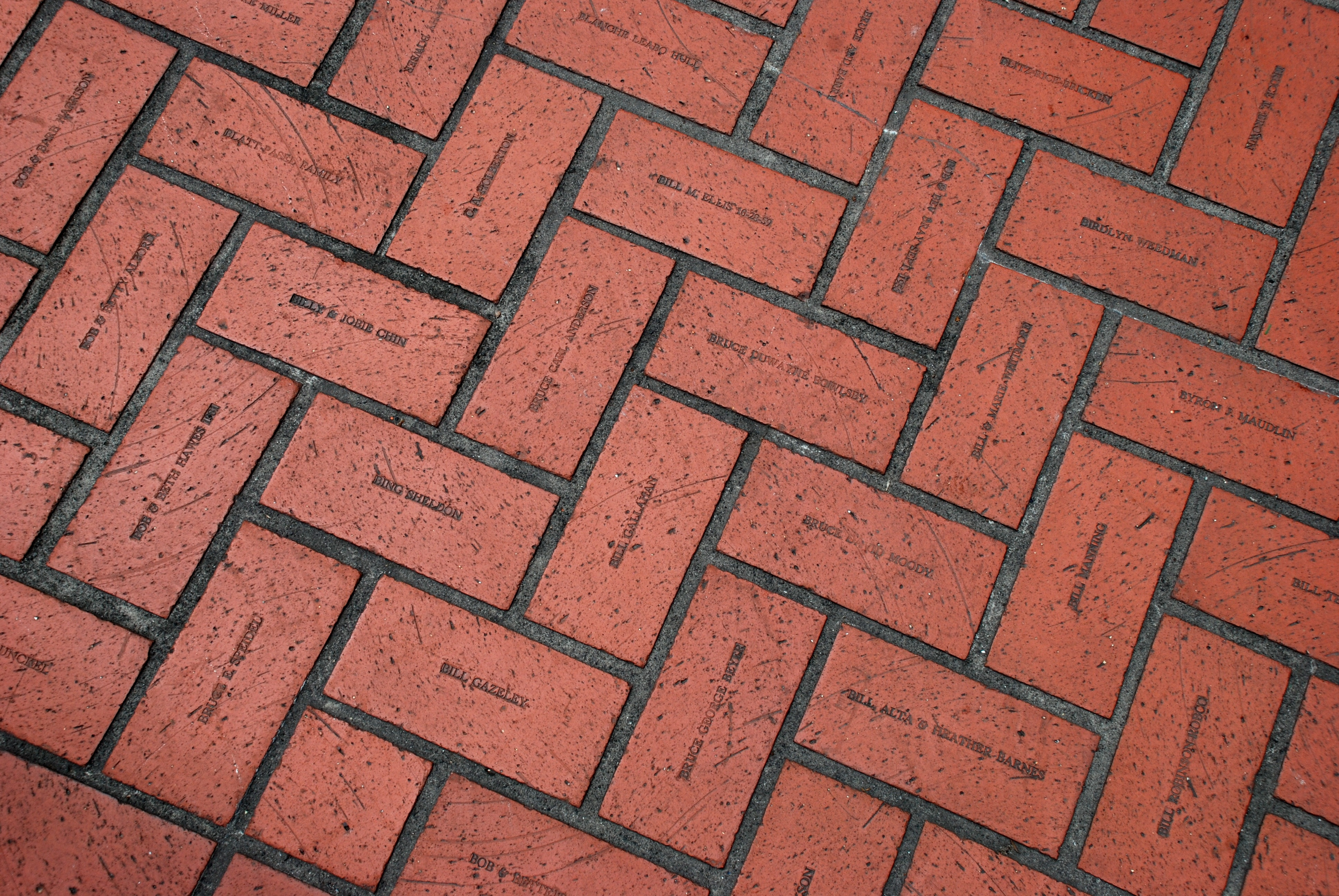 Close-up of imprinted bricks in Pioneer Courthouse Square (Portland, Oregon). This photo shows bricks in the main plaza, which were all purchased by citizen donors in 1981–83 (mostly in 1981) under the campaign that raised funds for the square's original construction (as opposed to later renovations). More than 50,000 bricks were purchased during that period. The square opened in 1984.